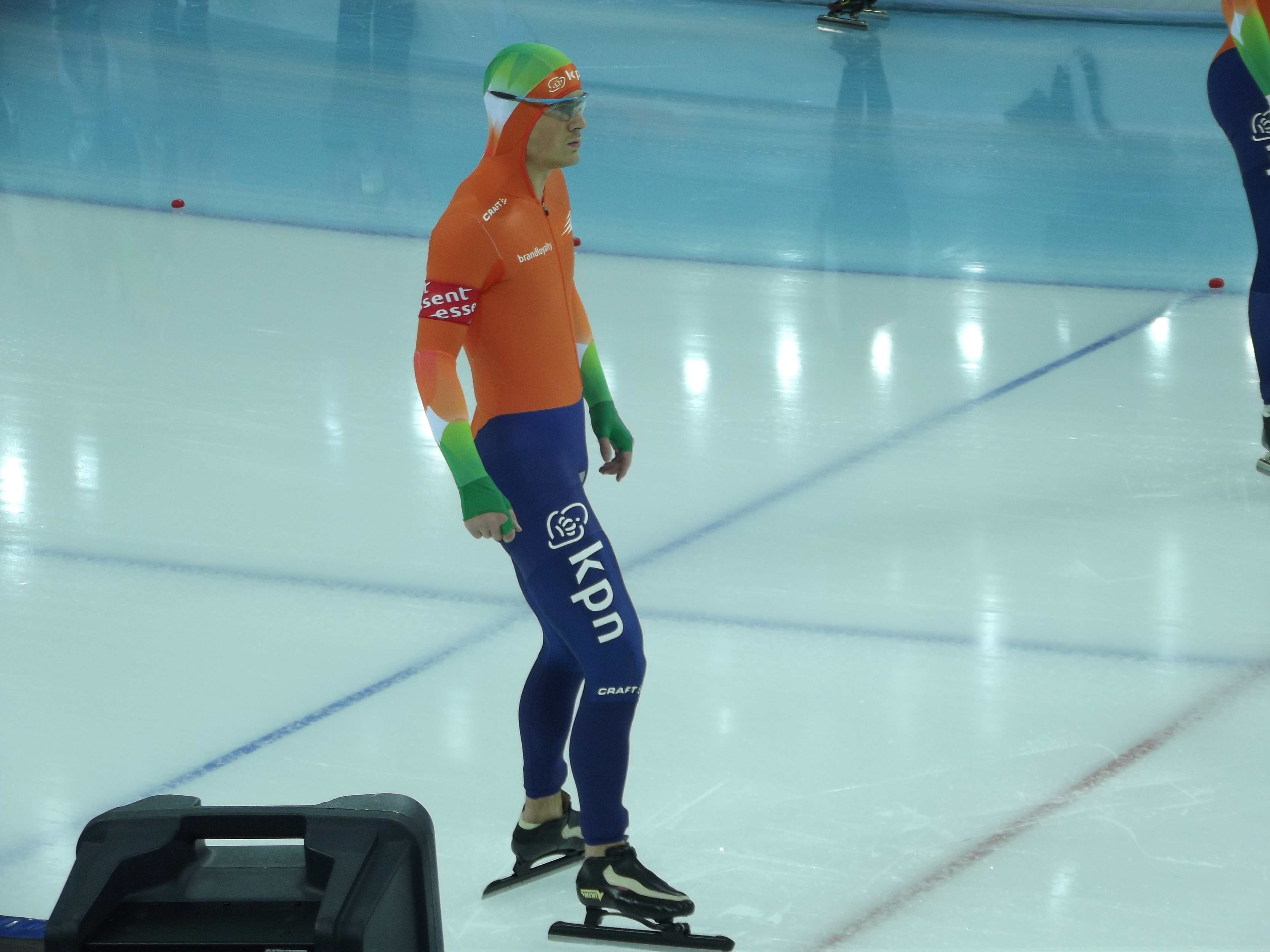 2013 World Single Distance Speed Skating Championships